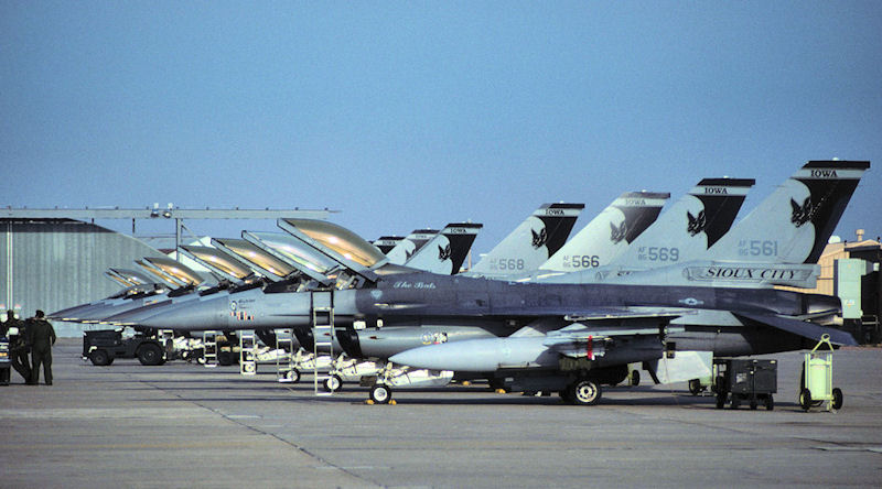 U. S. Air Force General Dynamics F-16C Fighting Falcon fighters from the 174th Fighter Squadron, 185th Fighter Wing, Iowa Air National Guard, at the Sioux City Gateway Airport, Iowa (USA), in 1998.